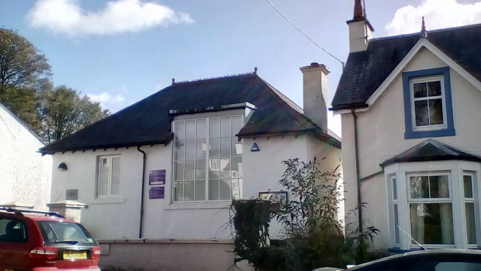 Public Library, St John's Town of Dalry, Kirkcudbrightshire, Scotland